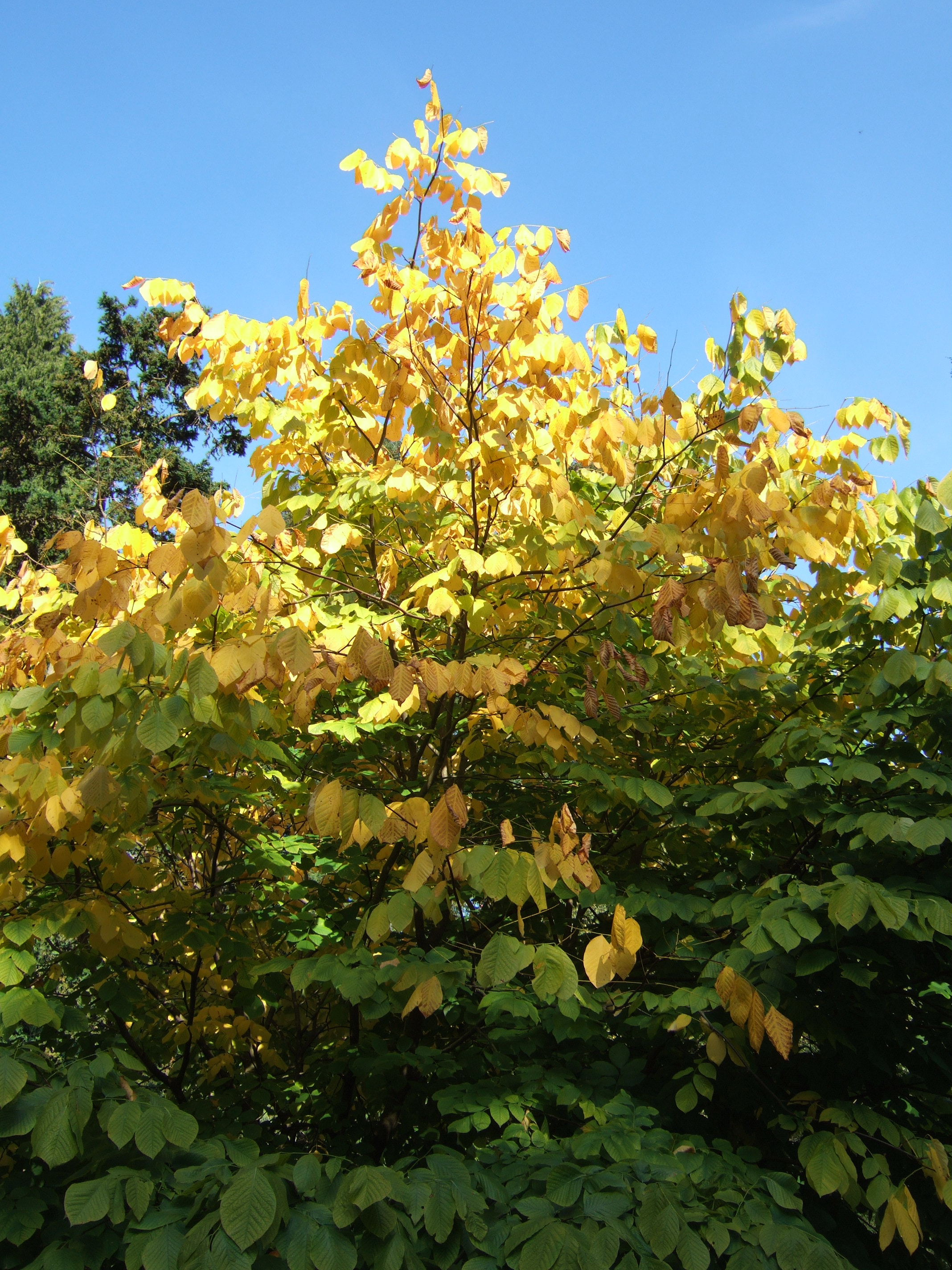 Cladrastis kentukea (Yellowwood) leaves turning yellow in fall. Photographed at Westonbirt Arboretum, England